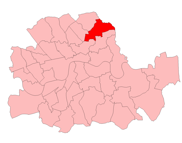 A map of Hackney Central constituency within the London County Council area, as it existed from 1955 to 1974.